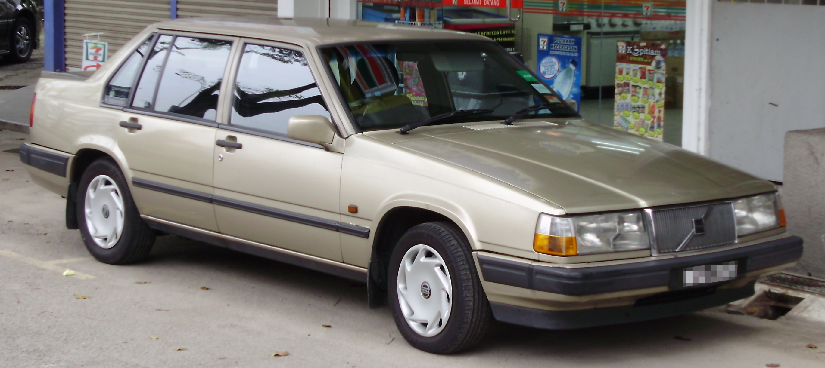 Front quarter view of a Volvo 940 (GL) in Pudu, Kuala Lumpur, Malaysia.